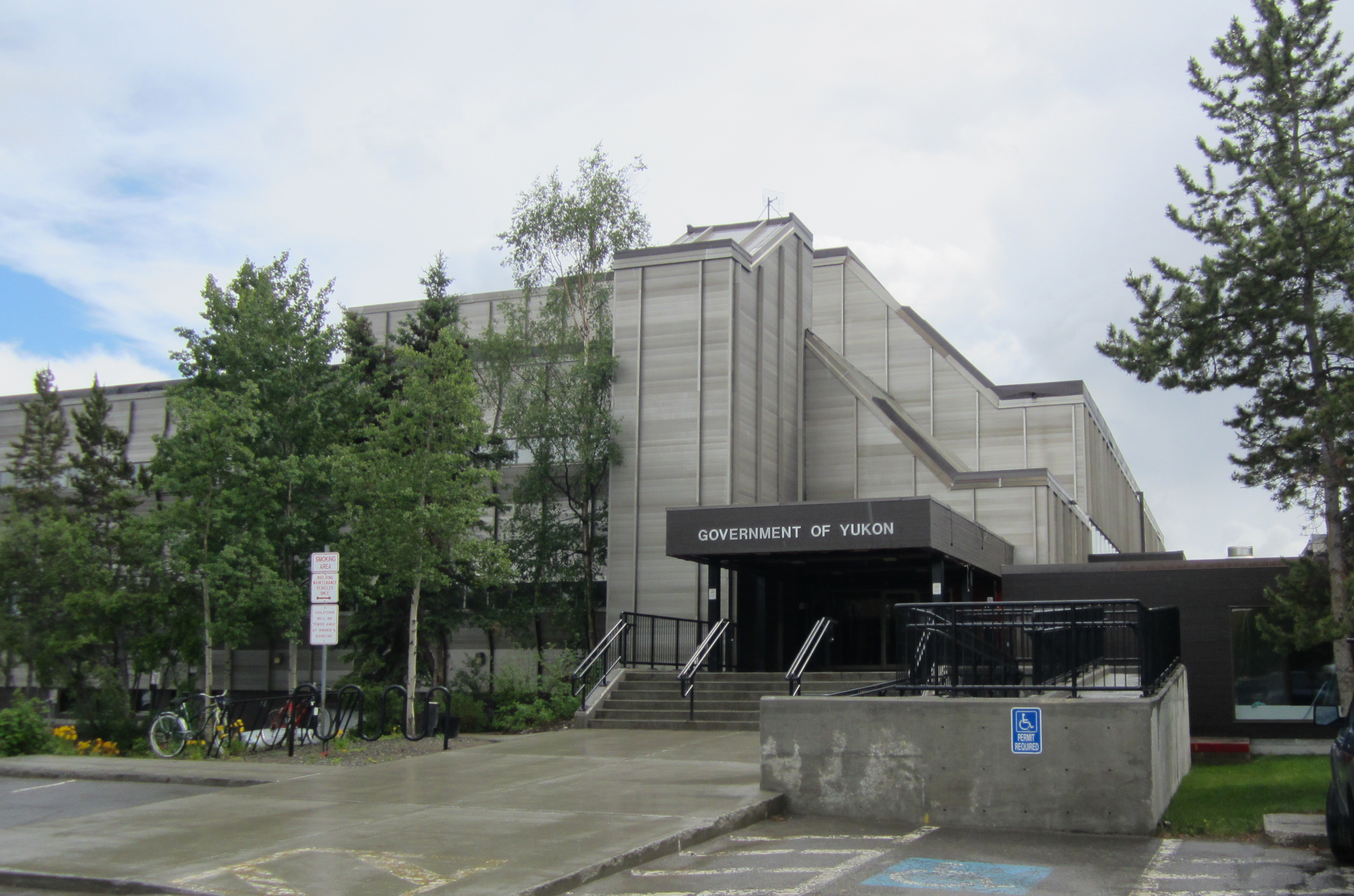 The side entrance to the Yukon Legislative Building.